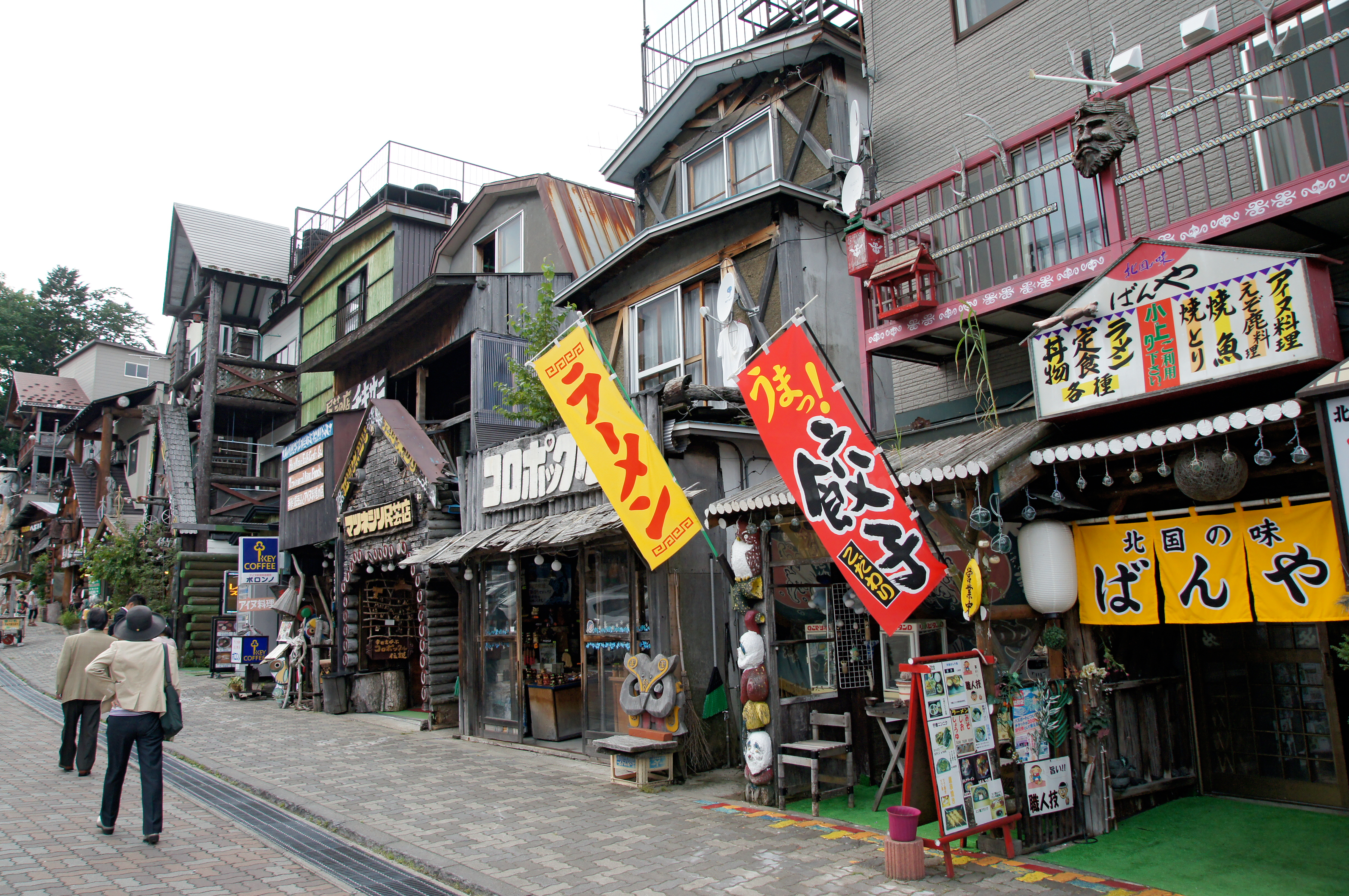 Kotan in Akan, Kushiro City, Hokkaido prefecture, Japan